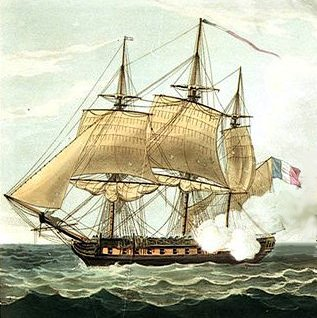 Clorinde